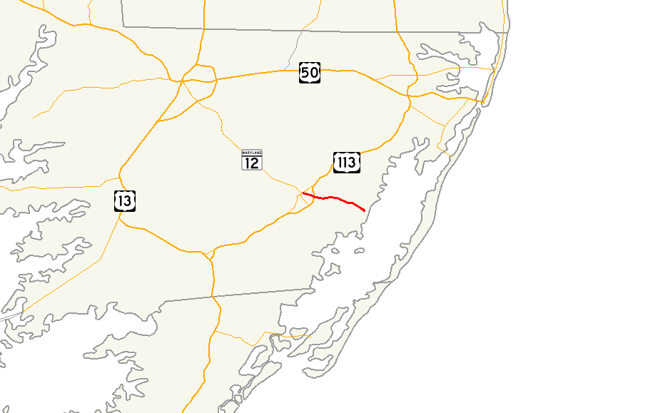 Map of Maryland 365